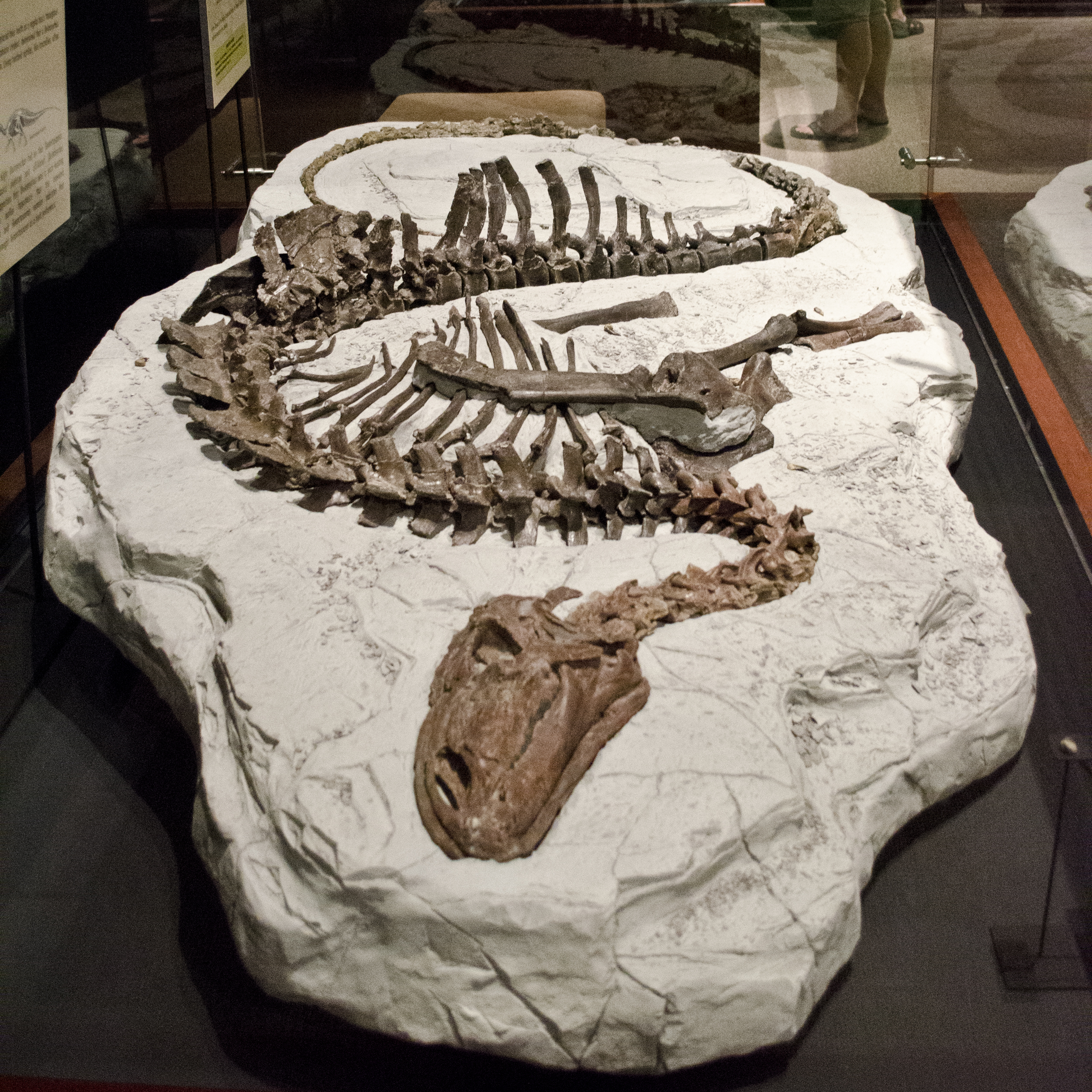 Fossil Tenontosaurus, on display in the Museum of the Rockies in Bozeman, Montana. This specimen was collected in Carbon County, Montana. Tenontosaurus (the "sinewy lizard") is a primitive Iguanodont that lived in western North America about 115 to 108 million years ago. Fossils were first discovered in Big Horn County, Montana, in 1903. Tenontosaurus was about 21 to 26 feet long and 10 feet high when it stood upright. (It usually traveled on all fours, however.) It weighed aboout one to two tons. Its tail was unusually long and broad, and the tail and the back was stiffened with a network of bony tendons (hence the name). Tenontosaurus was incredibly common, and the big raptor Deinonychus antirrhopus preyed on it heavily.